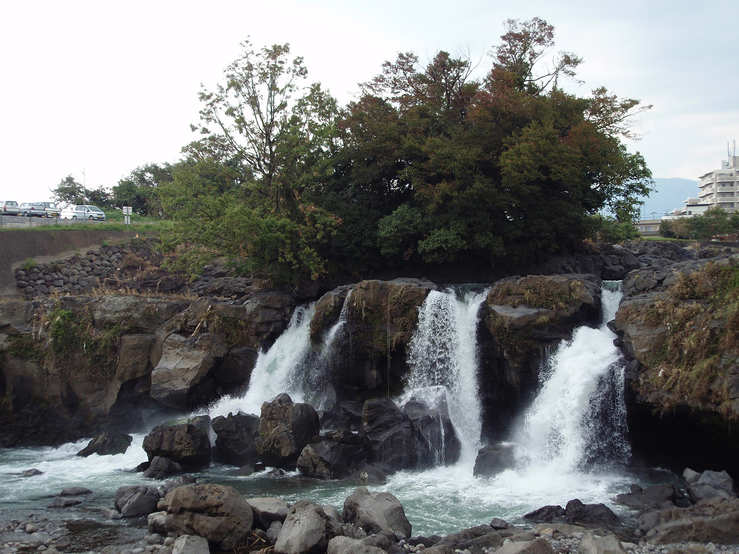 Ayutsubo Falls (Ayutsubo-no-taki) in Nagaizumi, Shizuoka Prefecture, Japan.